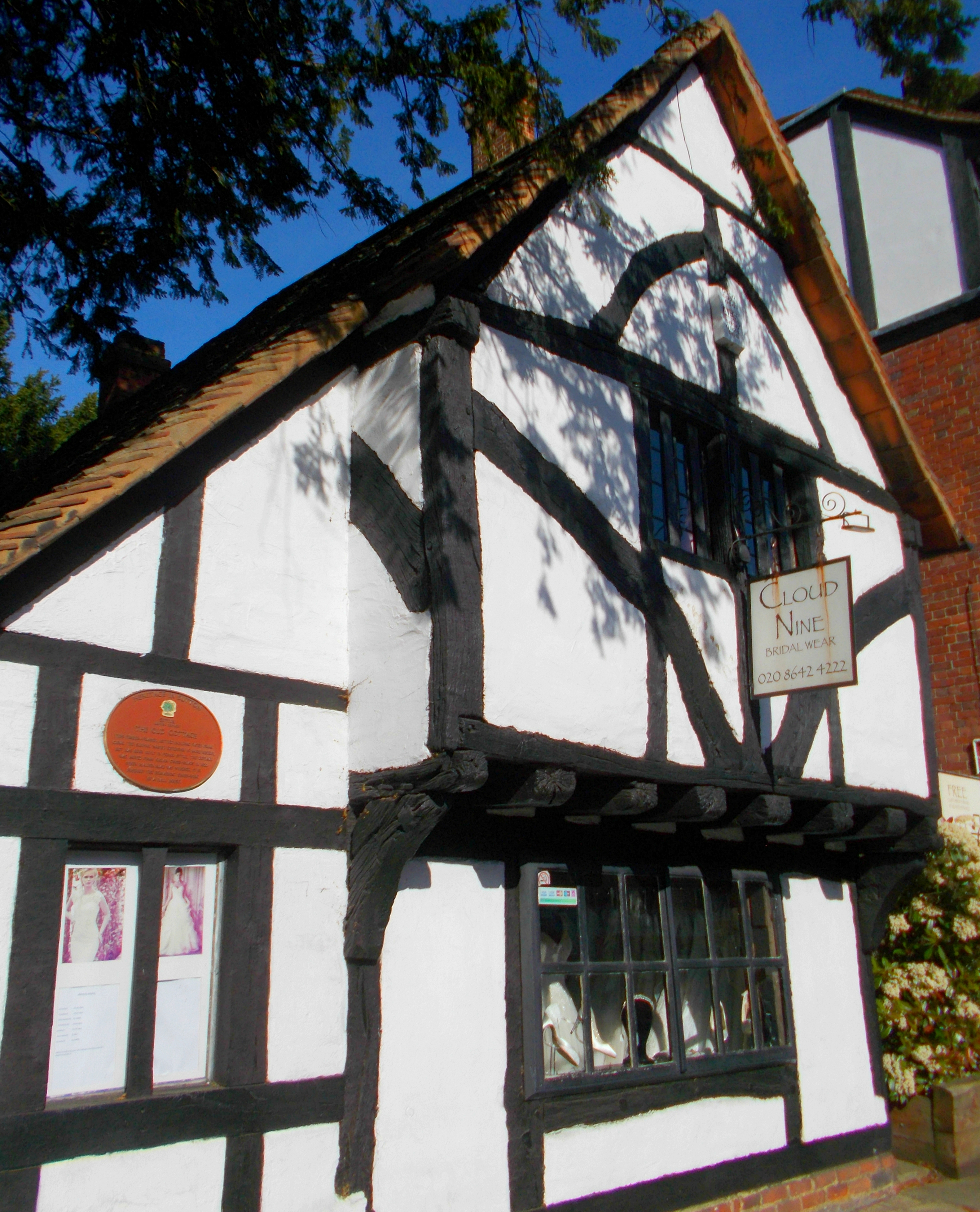 Cheam Village is a pleasant, leafy area of London about 12 miles from the centre of the city.